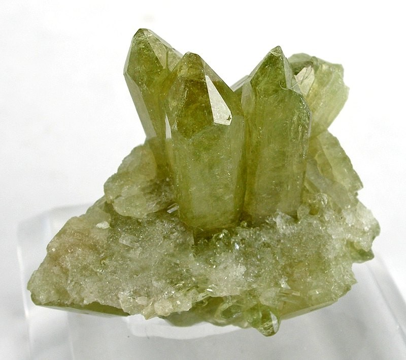 Vesuvianite Locality: Jeffrey mine (Jeffrey quarry; Johns-Manville mine), Asbestos, Les Sources RCM, Estrie, Québec, Canada (Locality at ) Size: 4.4 x 4 x 2.5 cm. A superb group of Jeffrey Mine vesuvianite crystals nicely displayed upright on matrix. This piece features three stark, dramatic crystals rising vertically from a plate of massive vesuvianite. The longest is 2.4 cm. All have 3-dimensional, perfect, sharp terminations.